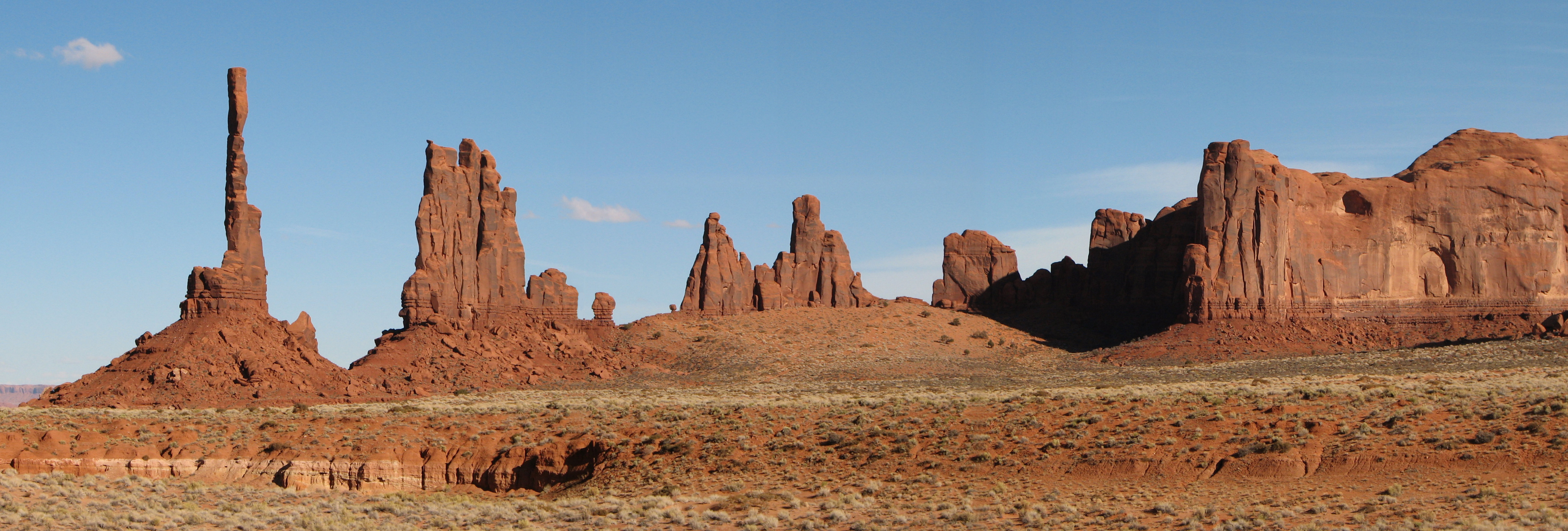 Totem Pole in Monument Valley, Arizona, USA